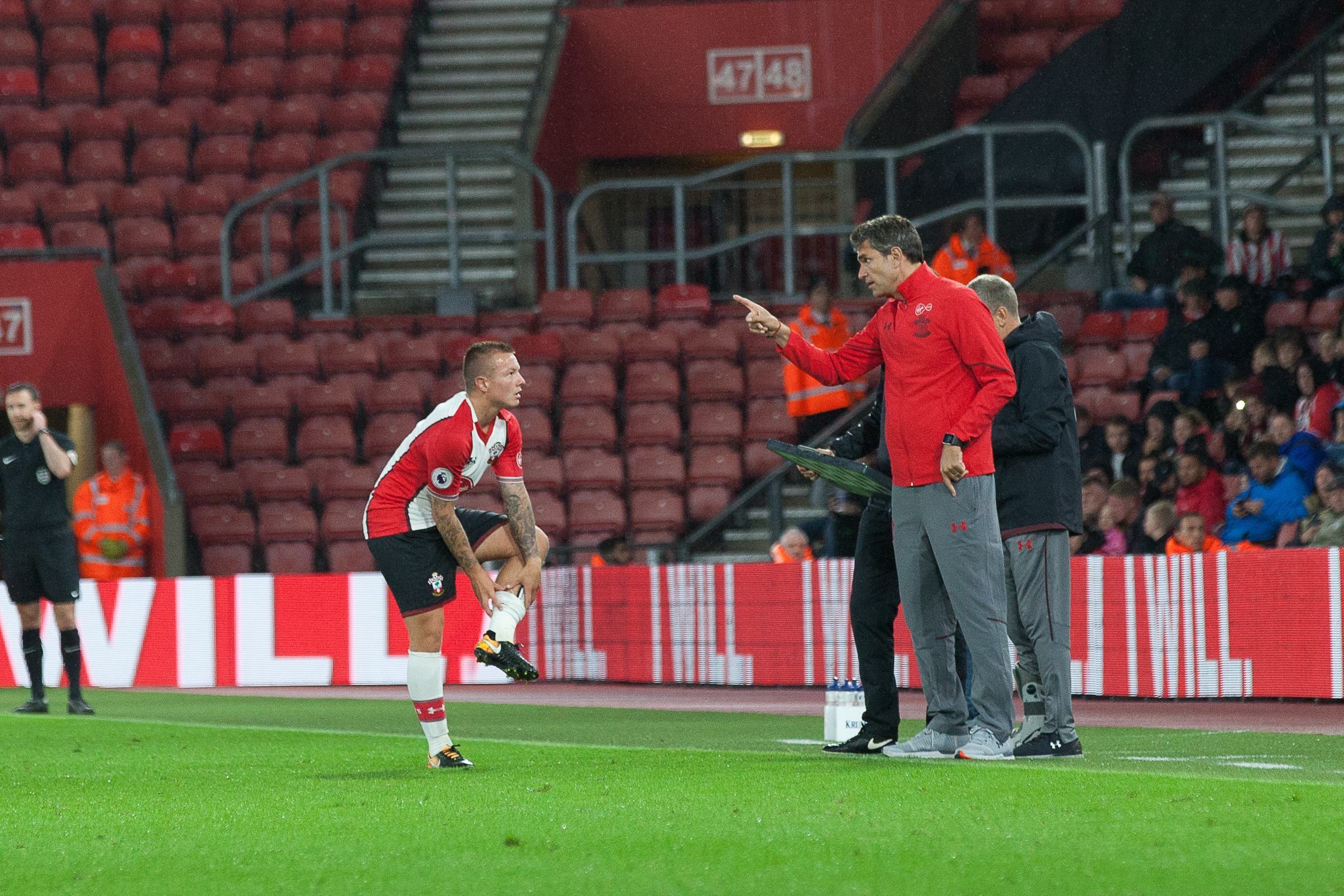 Pre-season friendly Wednesday 2 August 2017 Image by Steve Hogg